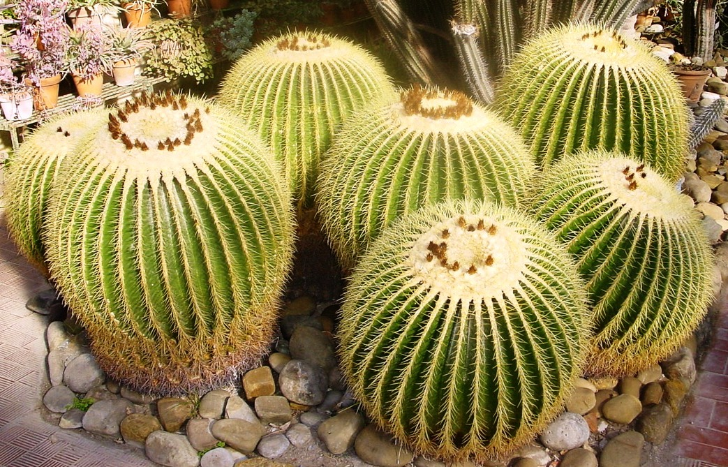 Echinocactus grusonii Botanical Garden, Palermo, 2006 photo by tato grasso